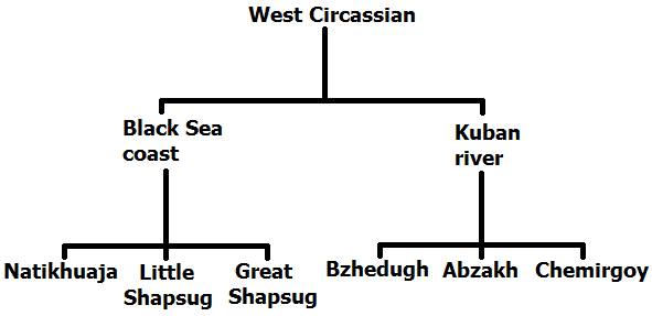 West Circassian dialects family tree